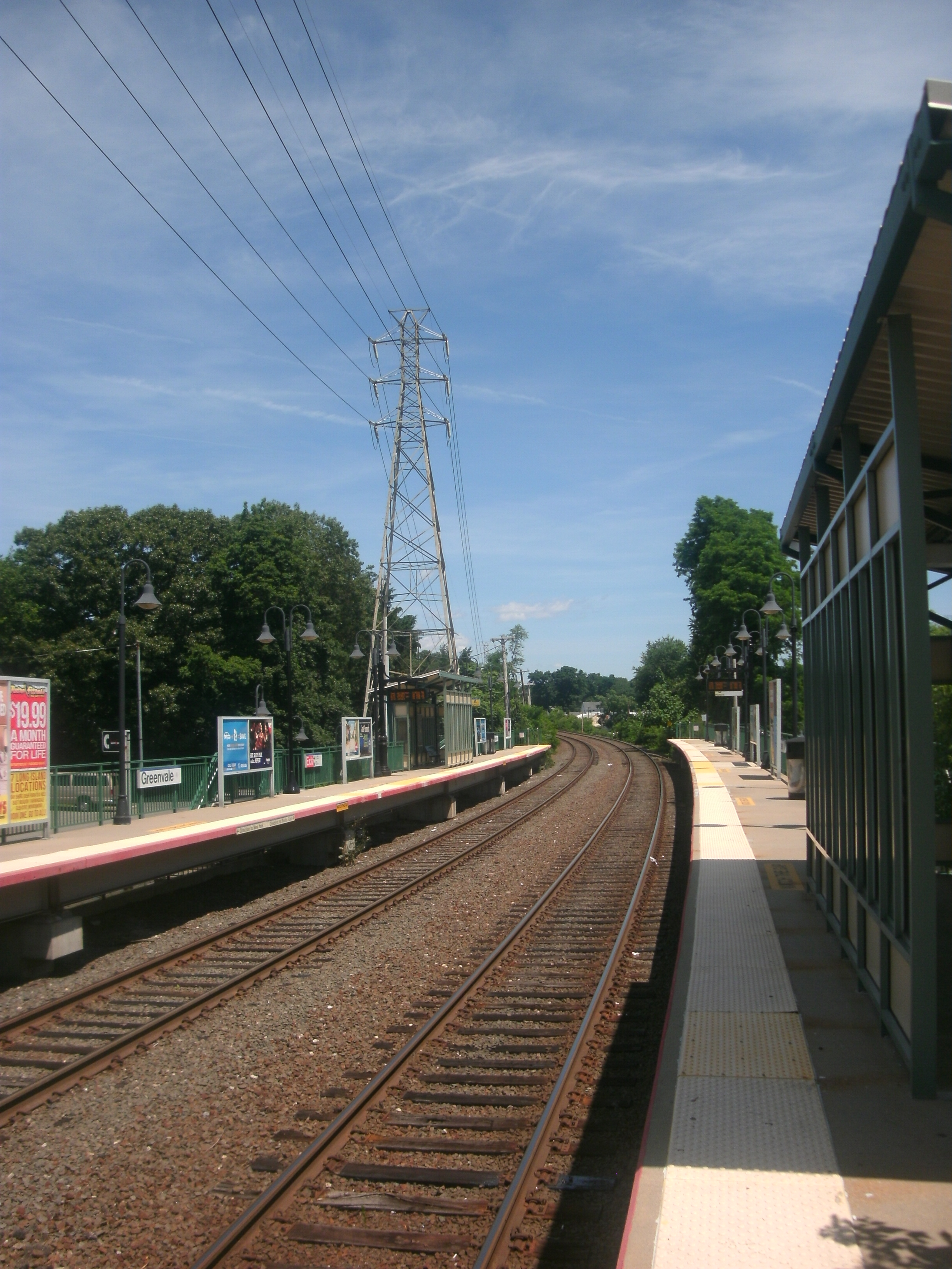 The Long Island Rail Road station at Greenvale, New York, facing Sea Cliff-bound on the Oyster Bay-bound platform.